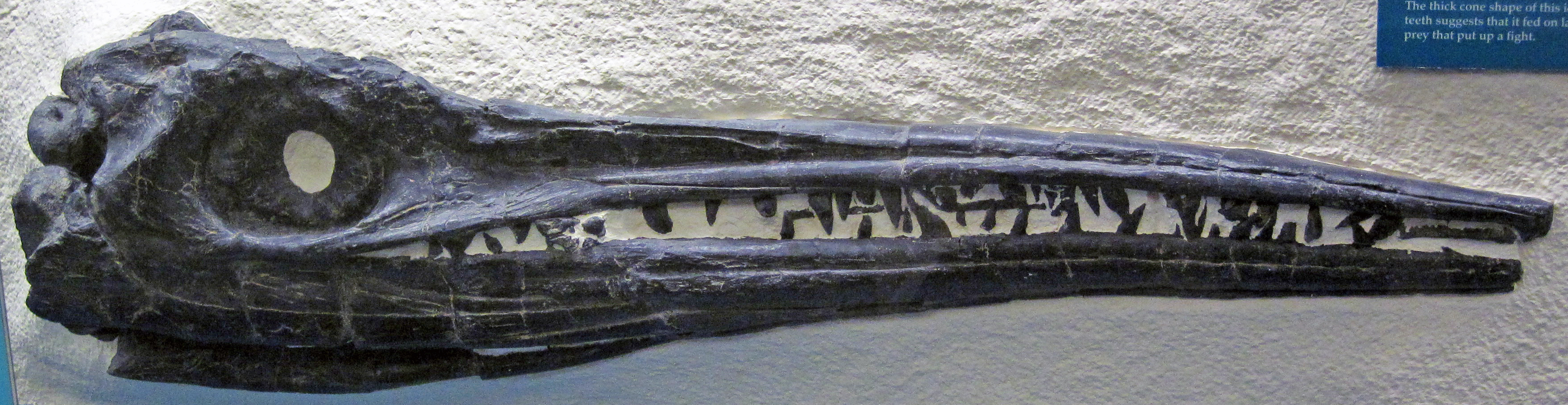 A fossil skull of Platypterygius, an Ichthyosaur, from the Cretaceous of Wyoming, USA. (public display, Sternberg Museum of Natural History, Hays, Kansas, USA). It lived from the Early Cretaceous (Hauterivian) to the earliest Late Cretaceous (Cenomanian), 130–94.3 M.y.a